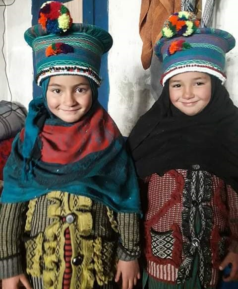 traditional women dress of Zongot